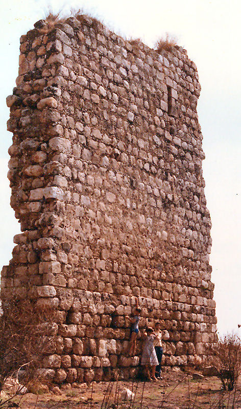 Burj et Atot Kfar Yona